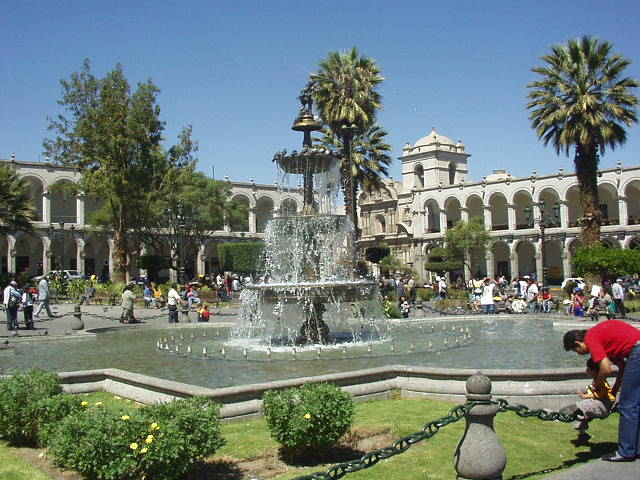 The fountain at the Plaza de Armas.